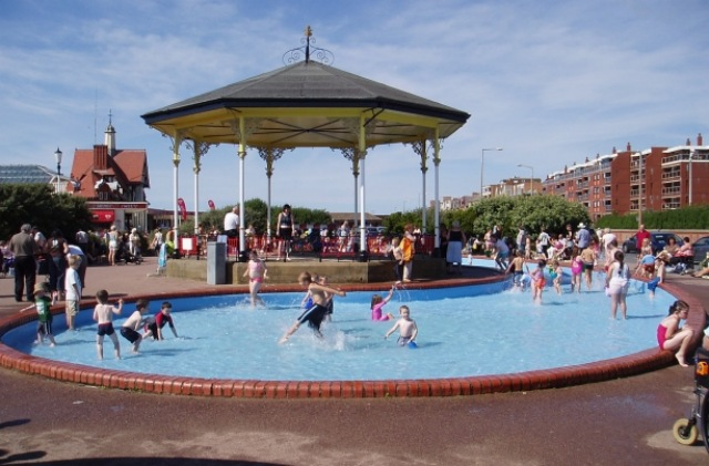 Paddling pool Buildings on right are on North Promenade, red roof on left is the start of the pier.